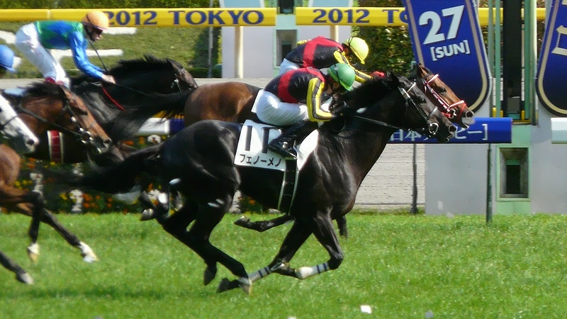 Fenomeno201120527